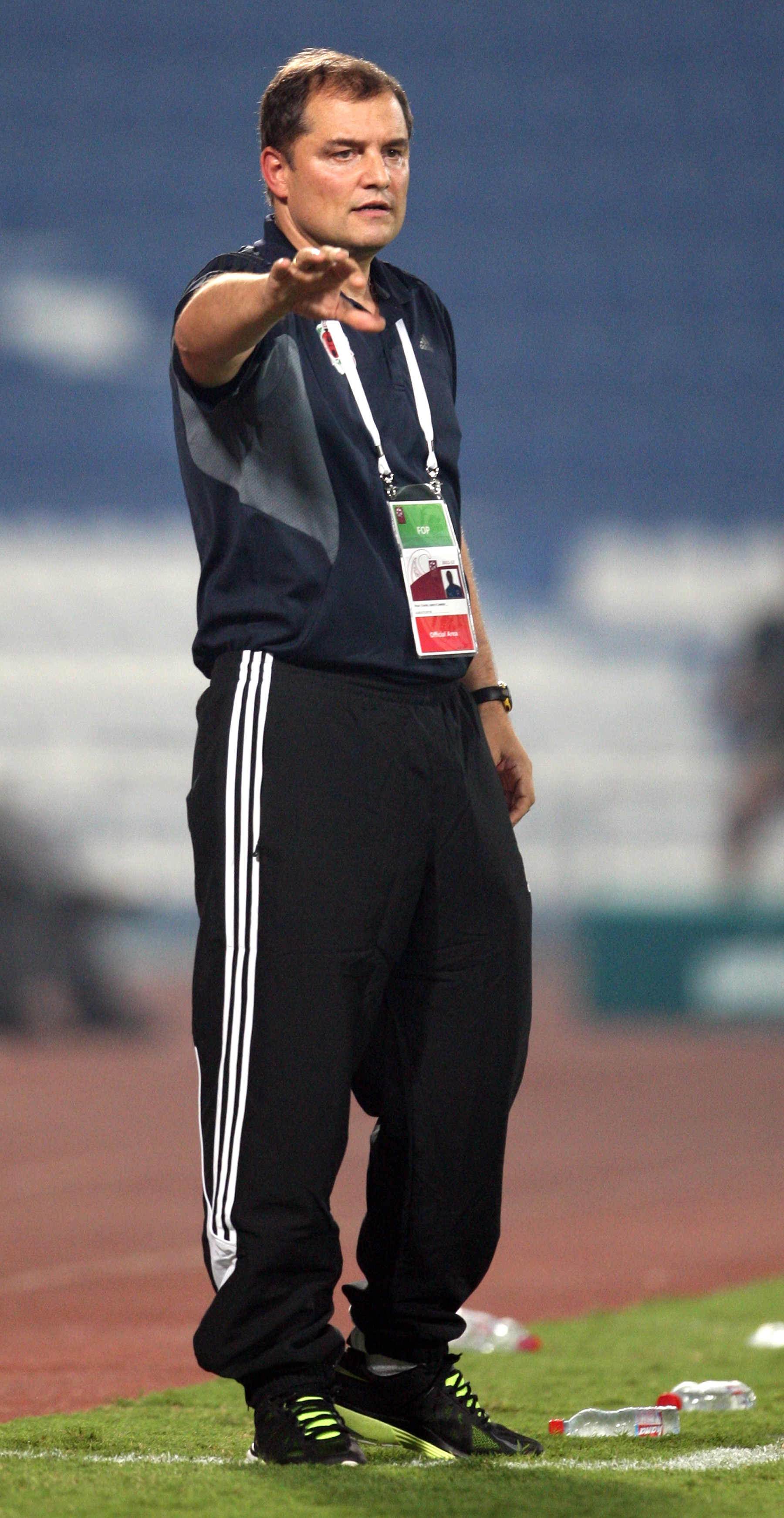 Uruguayan football manager Diego Aguirre in 2011.